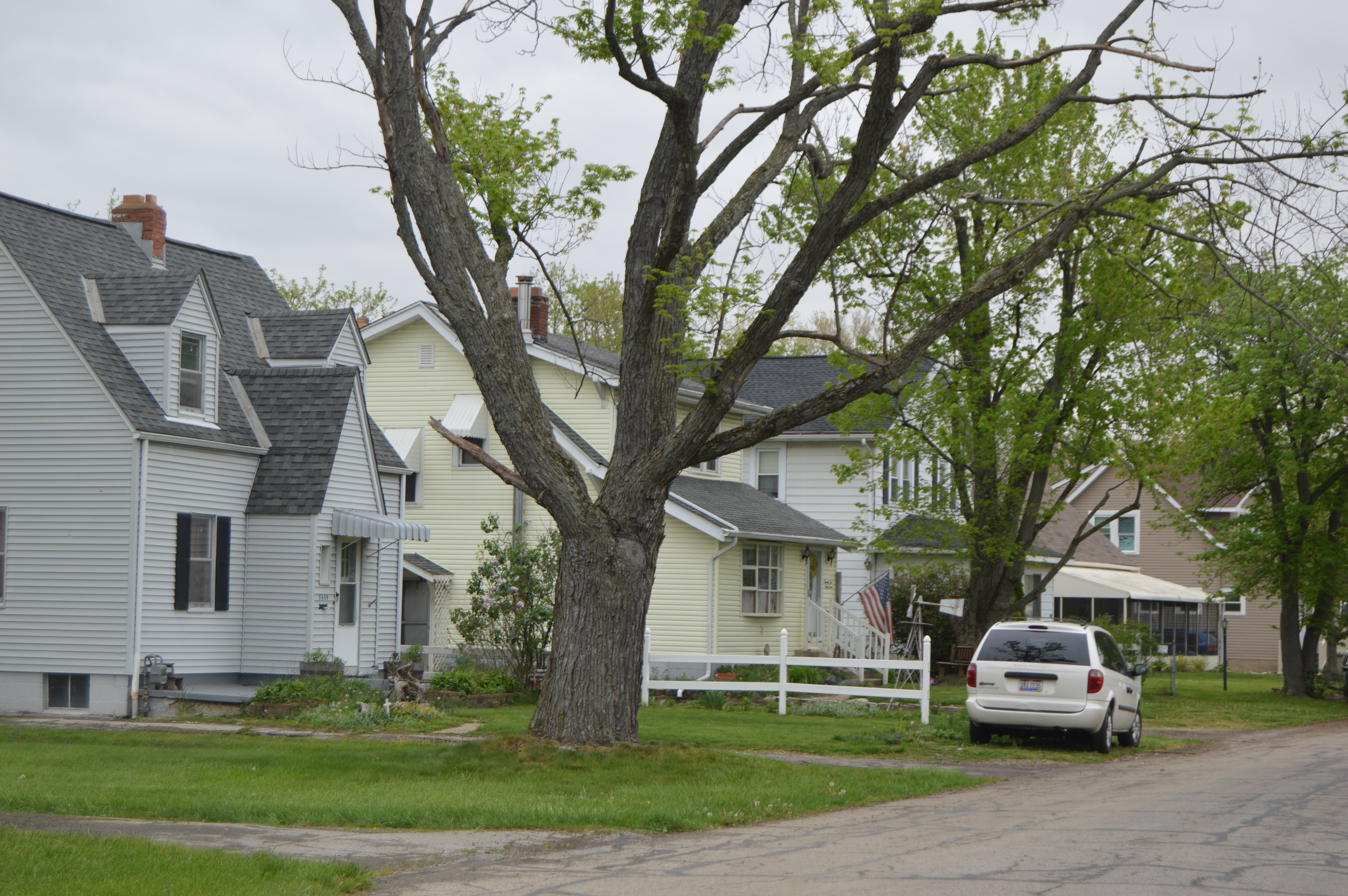 Houses on the northern side of Elliott Avenue, east of the Warren Avenue intersection, in Valleyview, Ohio, United States.